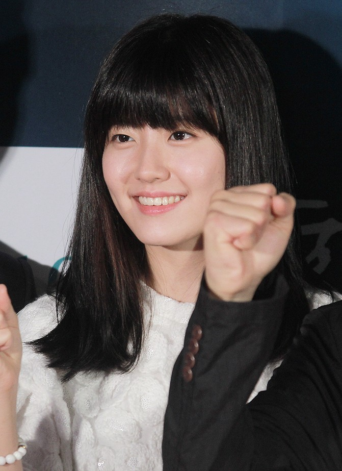 Nam Ji-hyeon (born September 17, 1995) in 2014